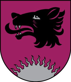 Coat of arms of Balvi Municipality